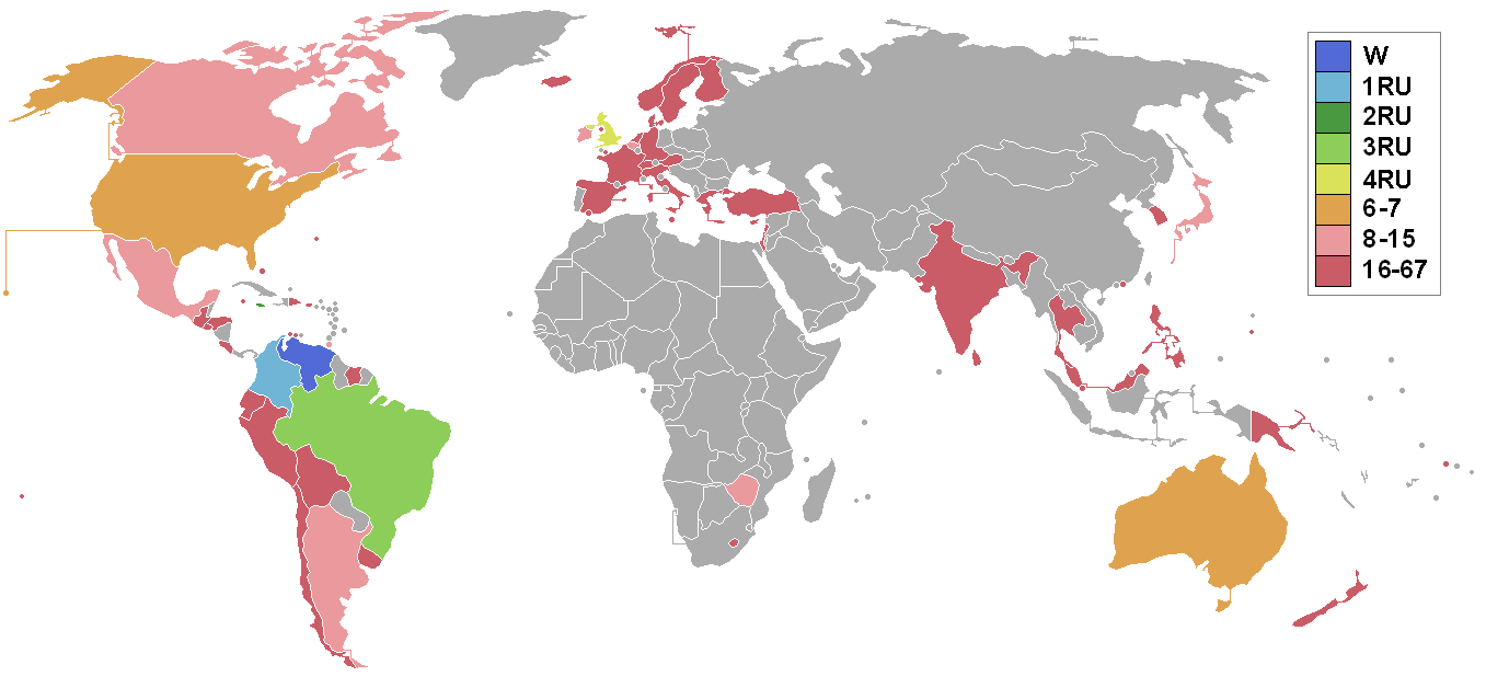 image created by Joey80